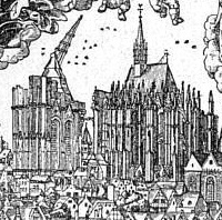 Cologne: Old building of St. Johann Evangelist (small, approx. in the middle of the image) in front of the unfinished Cathedral. Woodcut of Cologne, Germany, 1531